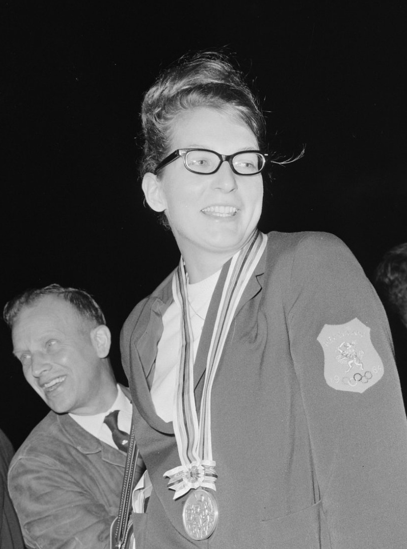 Aankomst Olympische ploeg op Schiphol, Van Weerdenburg